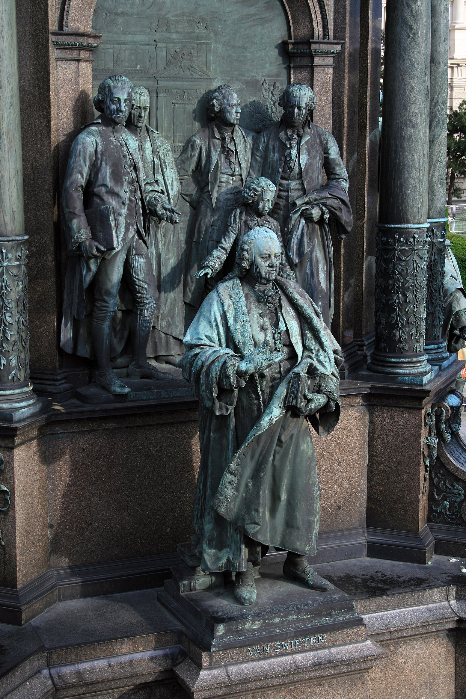 Part of Empress Maria Theresia monument in Vienna dedicated to science and art. front: Gerard van Swieten, back (from left): Joseph Hilarius Eckhel, György Pray, Christoph Willibald Gluck, Wolfgang Amadeus Mozart as a child and Joseph Haydn